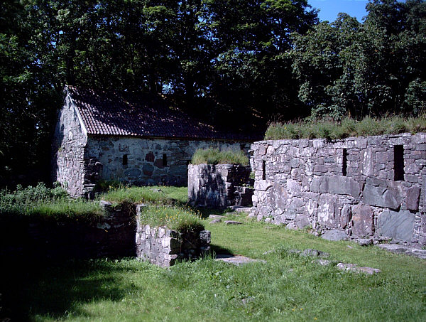 Isle of Halsnoy, Monastery